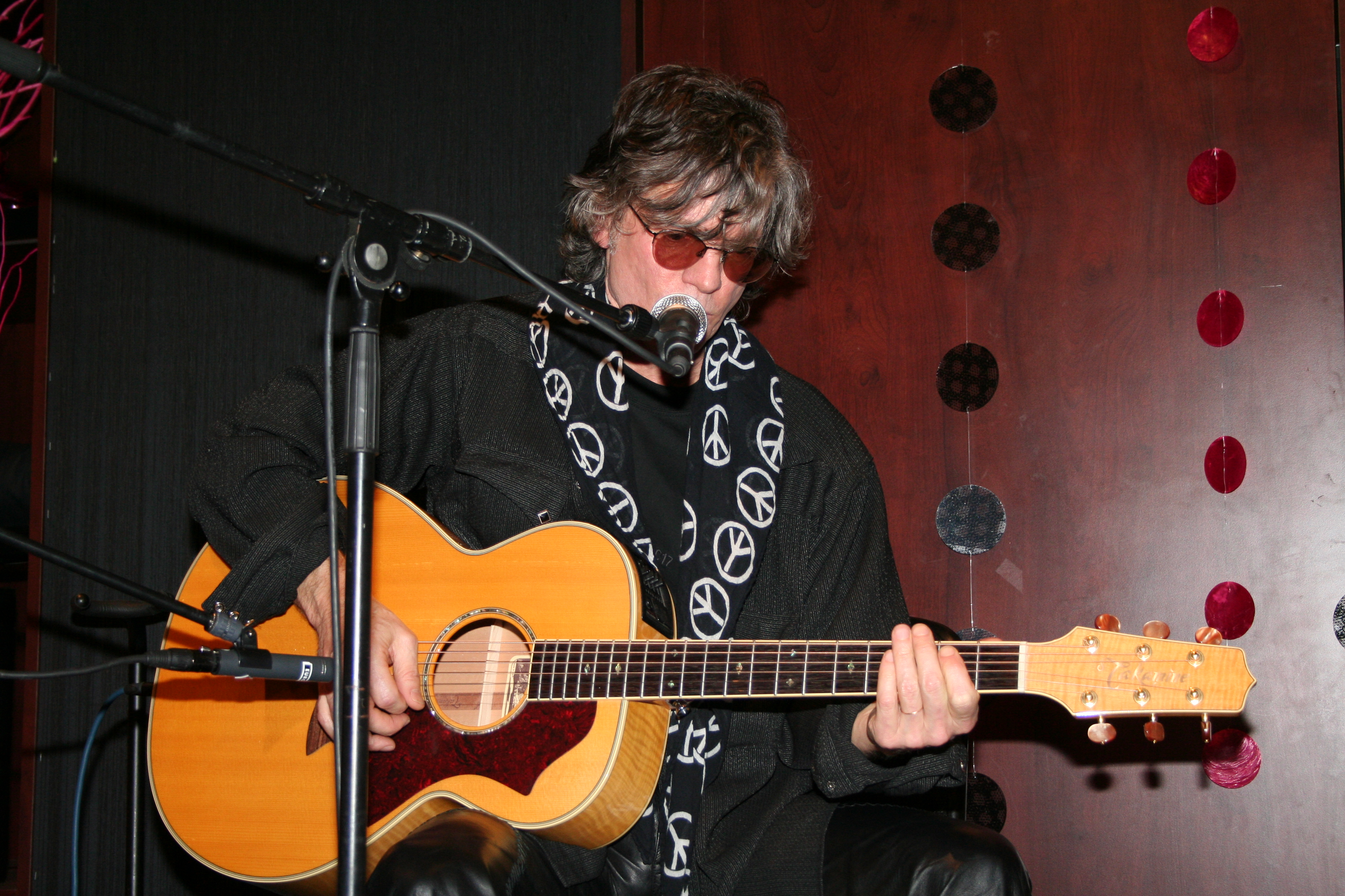 Rendezvous with Paul Personne at Fnac Italie (Paris, France).